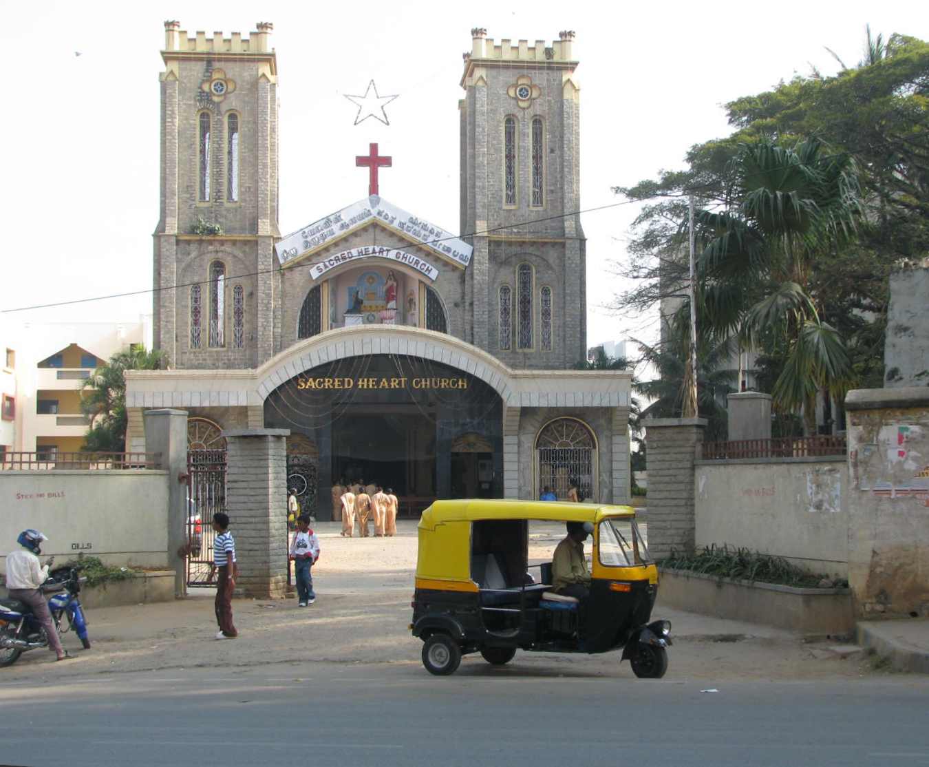 Outer Ring Road Apartments Bangalore Richmond Road Sacred Heart Church